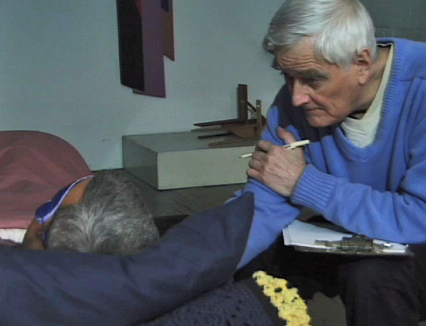 Hopkins in hypnotic regression session with man who came to him. 2003. New York City